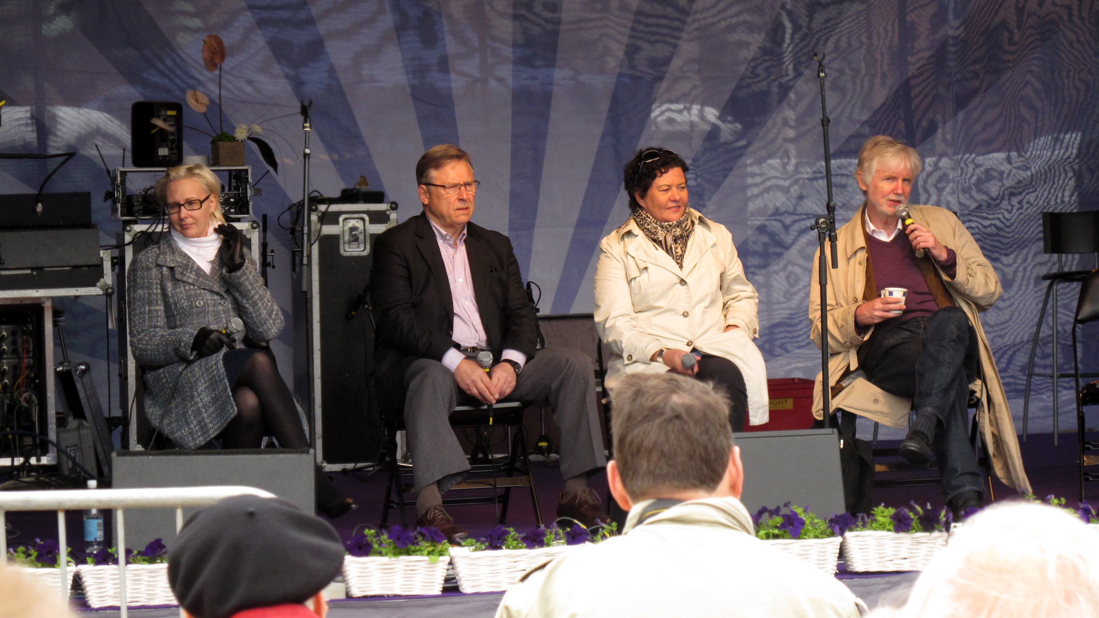 Maailma kylässä 2001 (World Village Festival) at Helsinki. There is usually several public discussions during the festival time. This was on a toppic of foreign aid. The members were representatives of the major political parties of 2011 election. In the picture (from left to right): Maria Lohela (True Finns), Pertti Salolainen (National Coalition Party), Aila Paloniemi (Centre Party), Erkki Tuomioja (Social Democratic Party of Finland). The director was journalist Johanna Korhonen (not pictured).